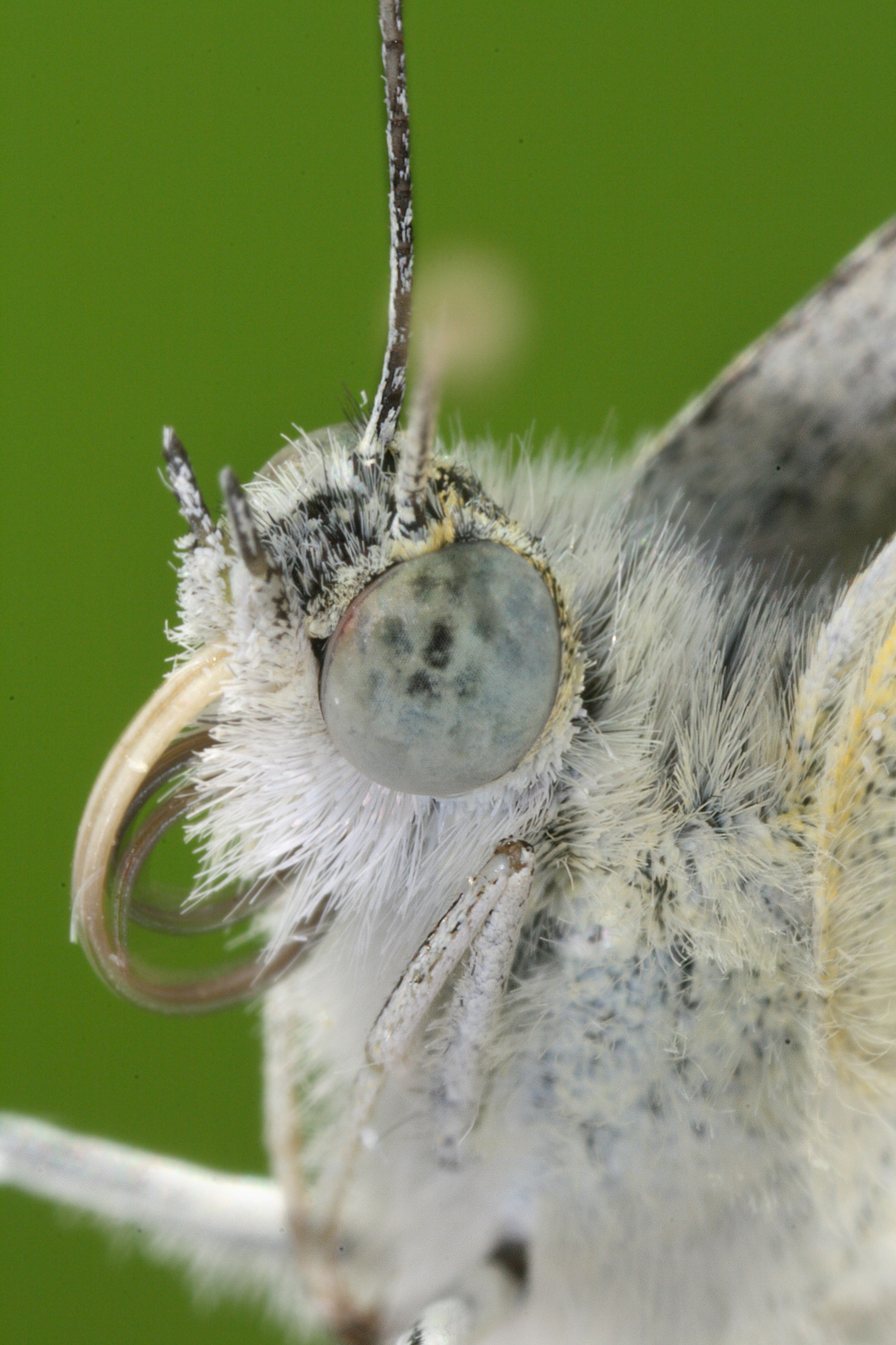 Description: The Small White (Pieris rapae) is a small to mid-sized butterfly species of the Yellows-and-Whites family Pieridae. It is also commonly known as the Small Cabbage White. The names "Cabbage Butterfly" and "Cabbage White" can also refer to the Large White.